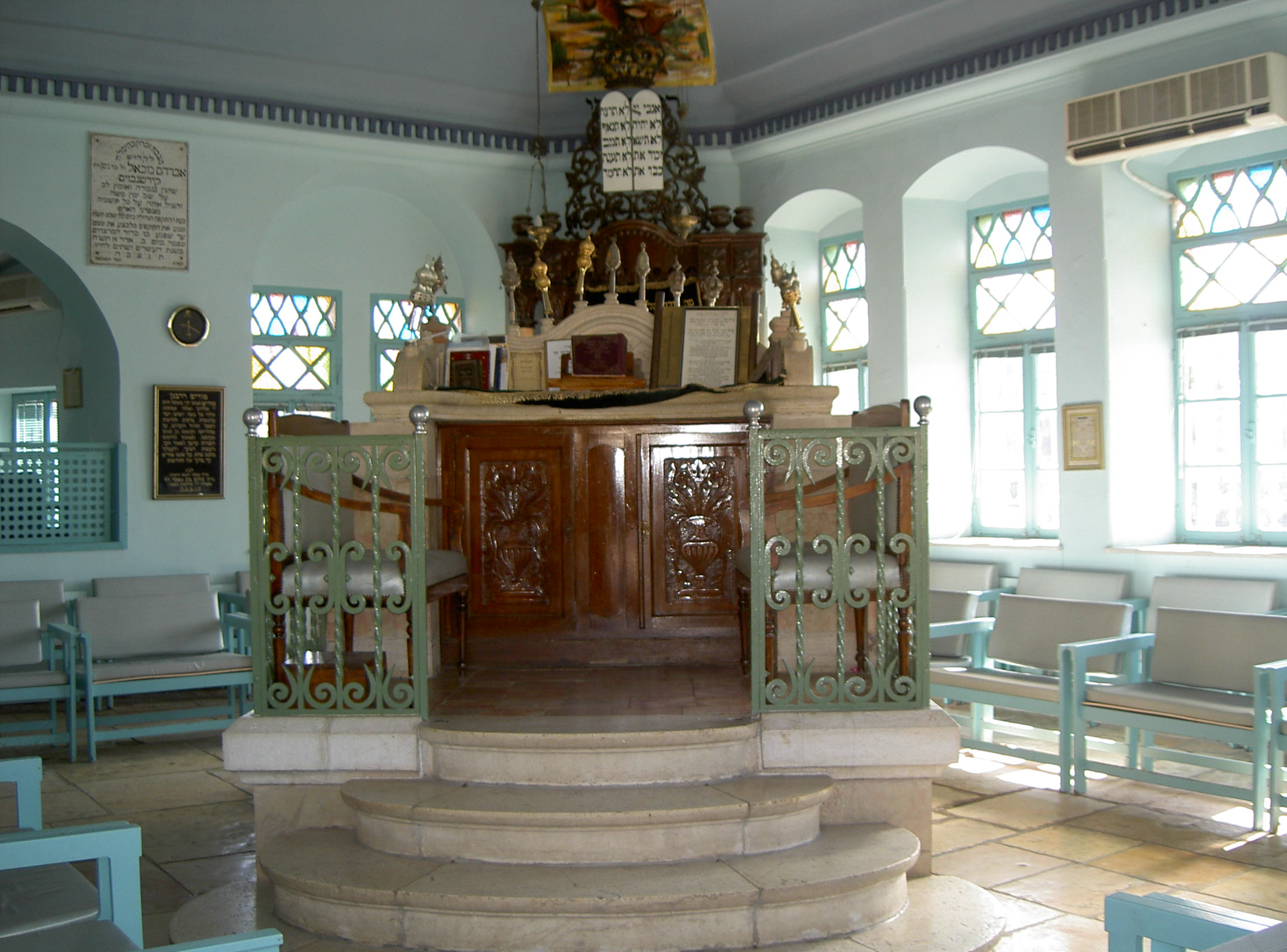 Jerusalem, Yemin Moshe, Great Sephardic Synagogue.